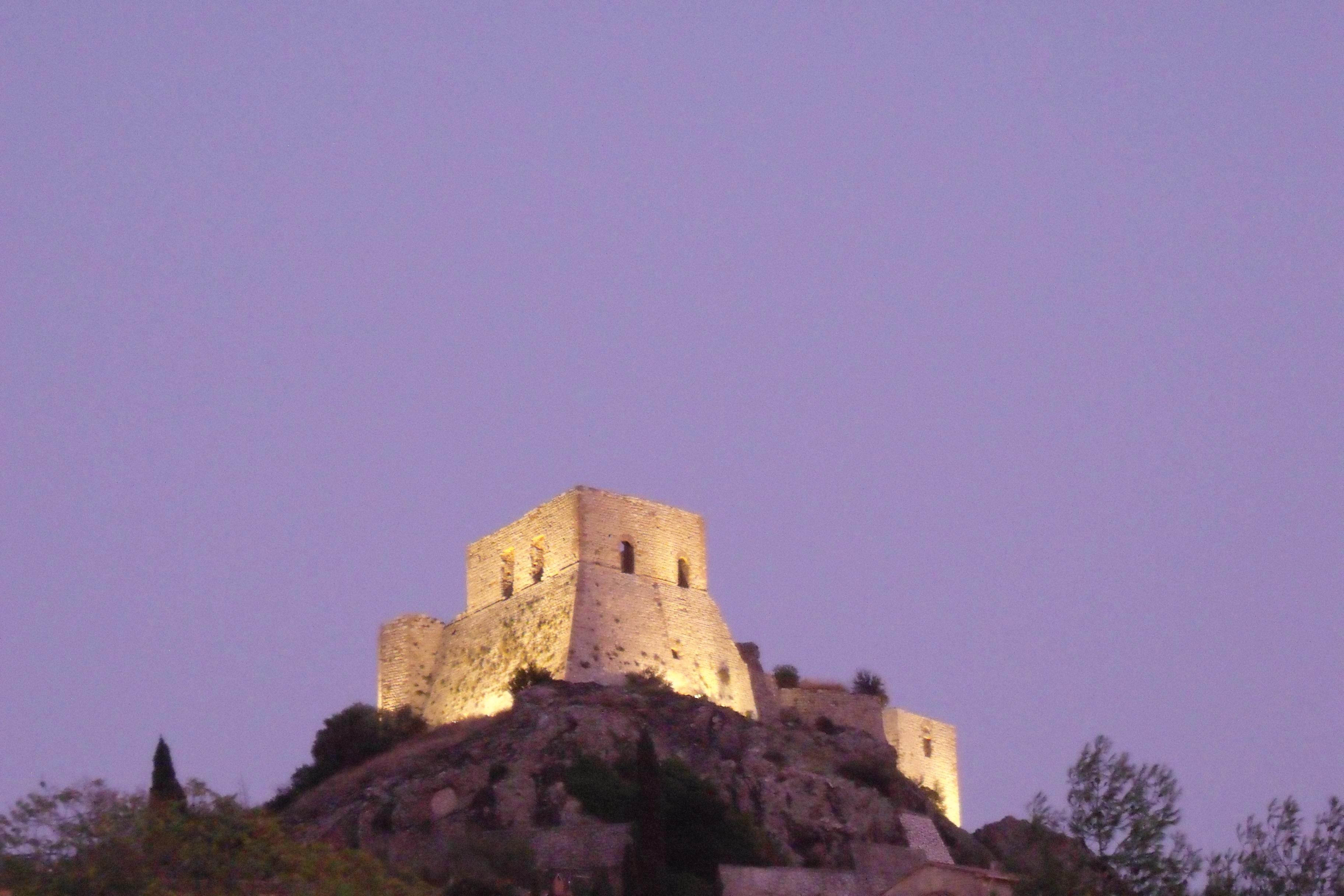 Panorama of the Castle in Montemassi by night, Municipality of Roccastrada, Province of Grosseto, Tuscany, Italy